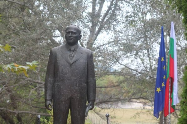 Flag of the European Union at the clebrations of Zhivkov's 105th birthday, Pravets, Bulgaria, 2016